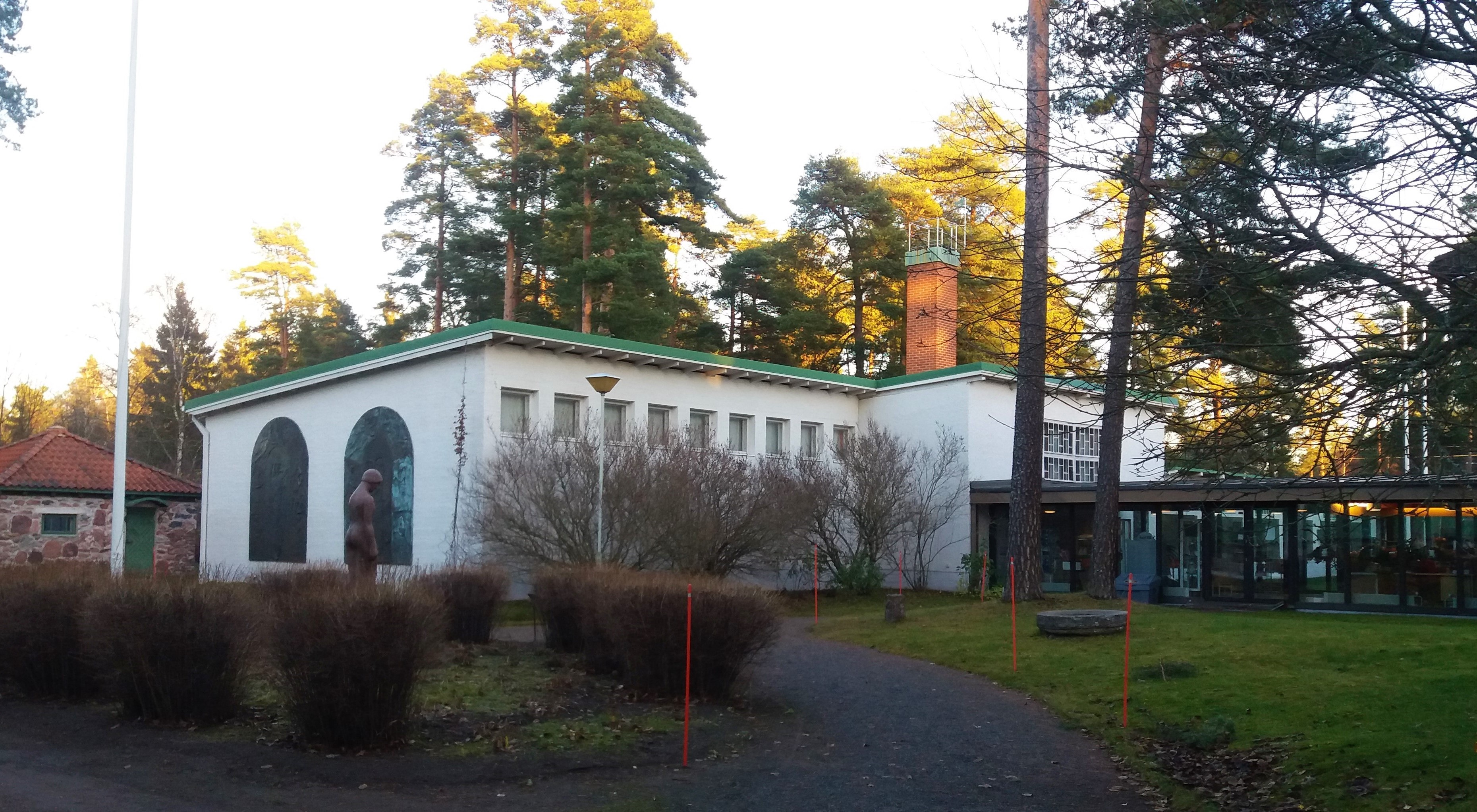 Emil Cedercreutz Museum, Harjavalta, Finland.